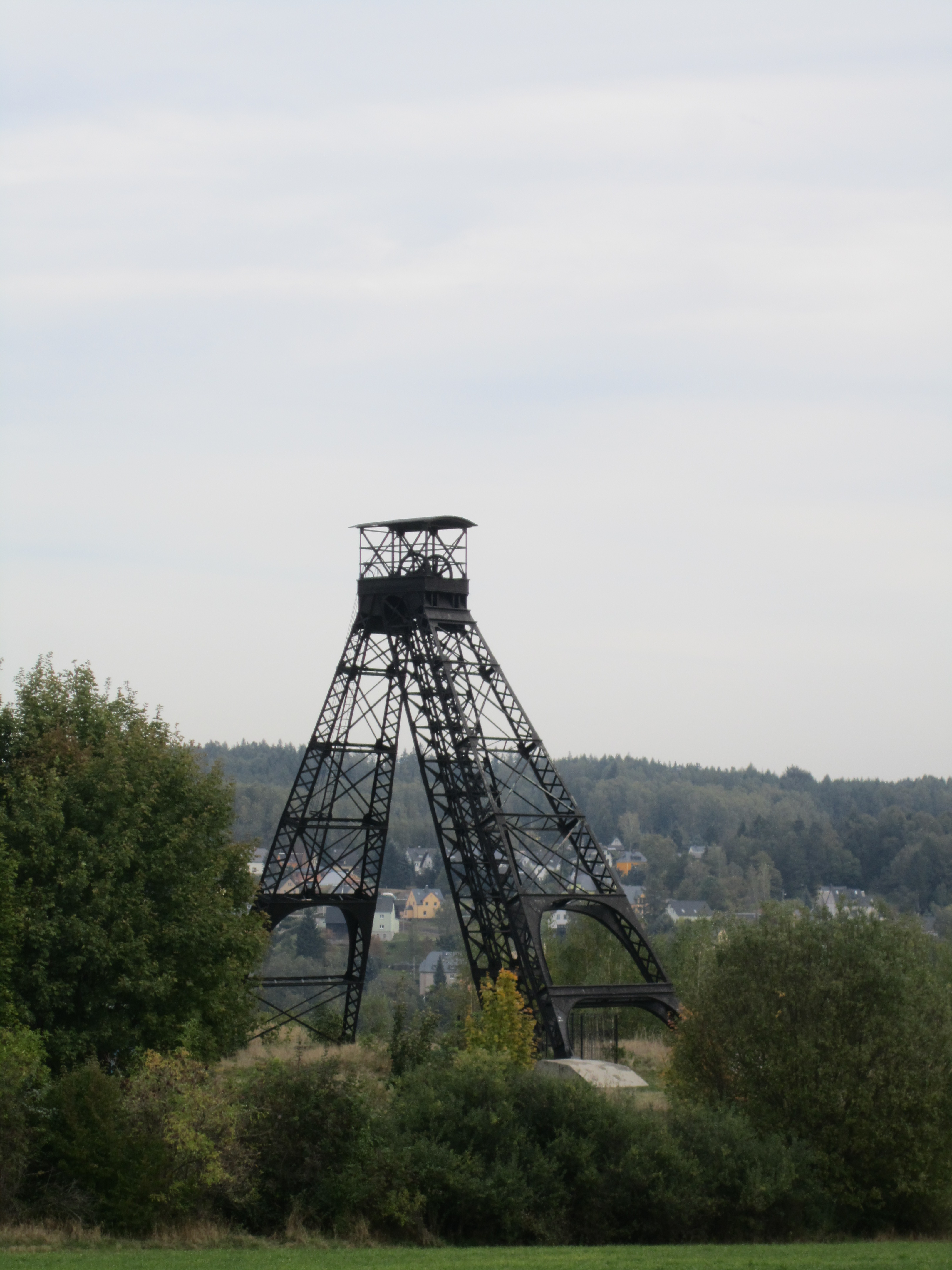 Headframe of Tuerkschacht. Zschorlau near Schneeberg, Ore Mountains, Saxony, Germany.